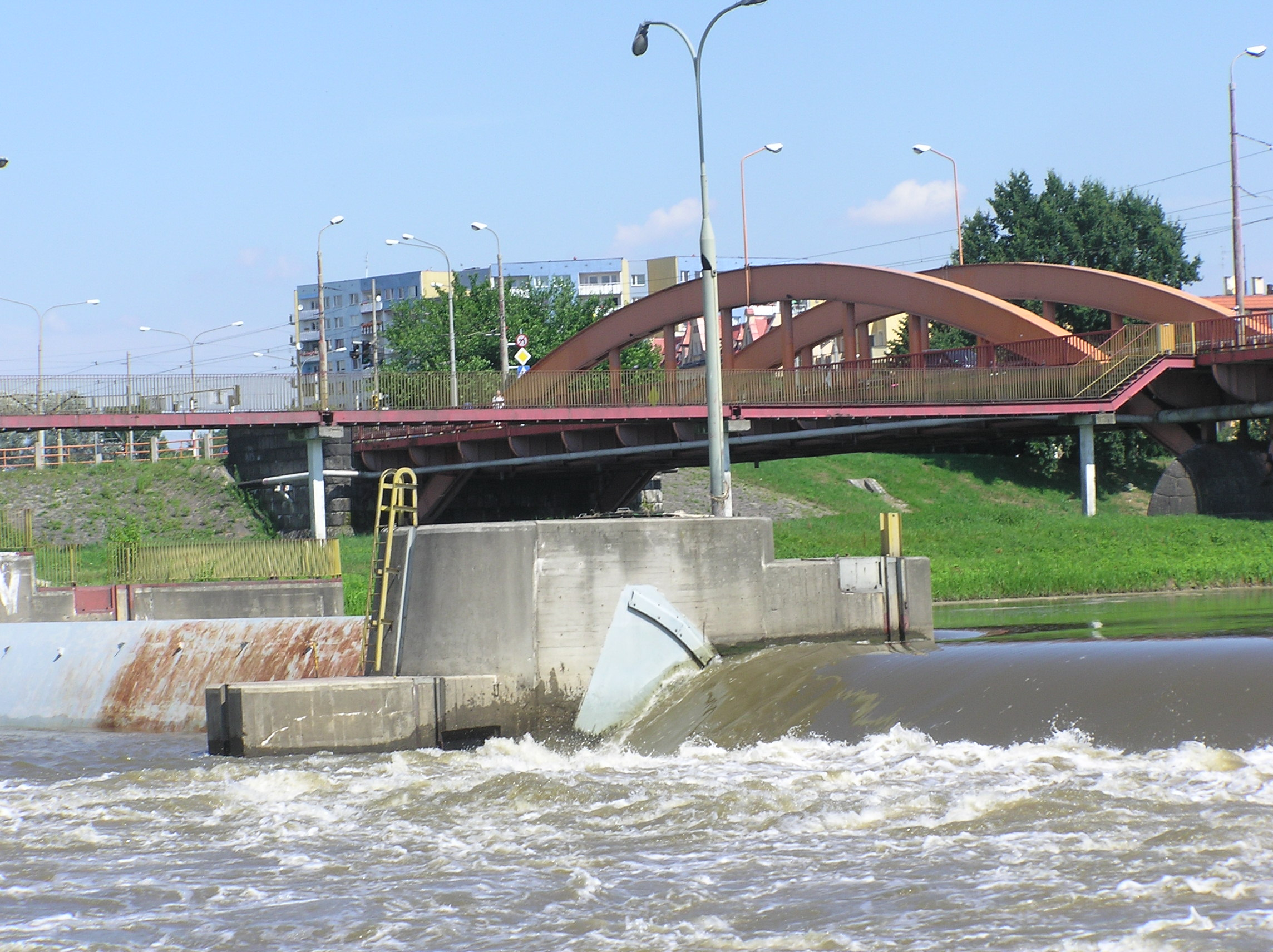 Wrocław, Oder River, Stara Odra, Różanka weir, Trzebnicki Bridge